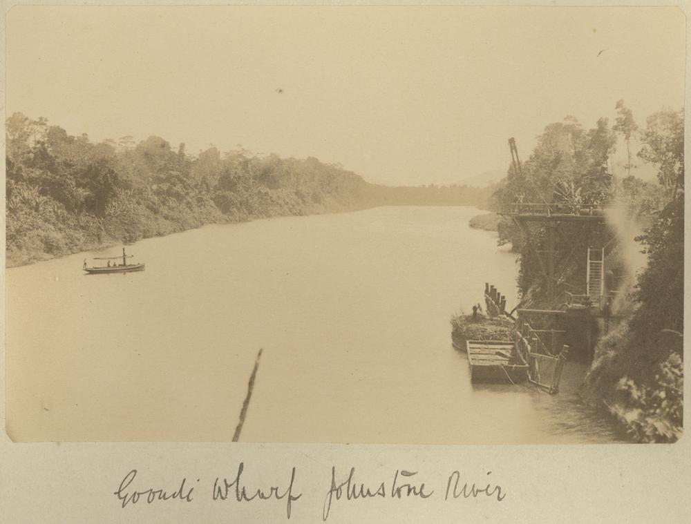 Goondi Wharf on the Johnstone River. Wharf on the Johnstone River at the Goondi Plantation. Photograph shows landing stage and jetty.